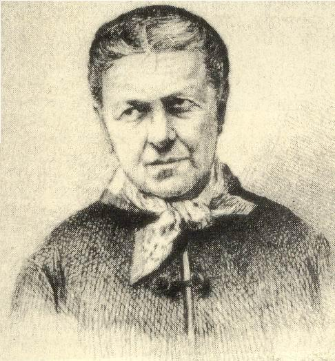 Sketch of the mystic Louise Lateau.